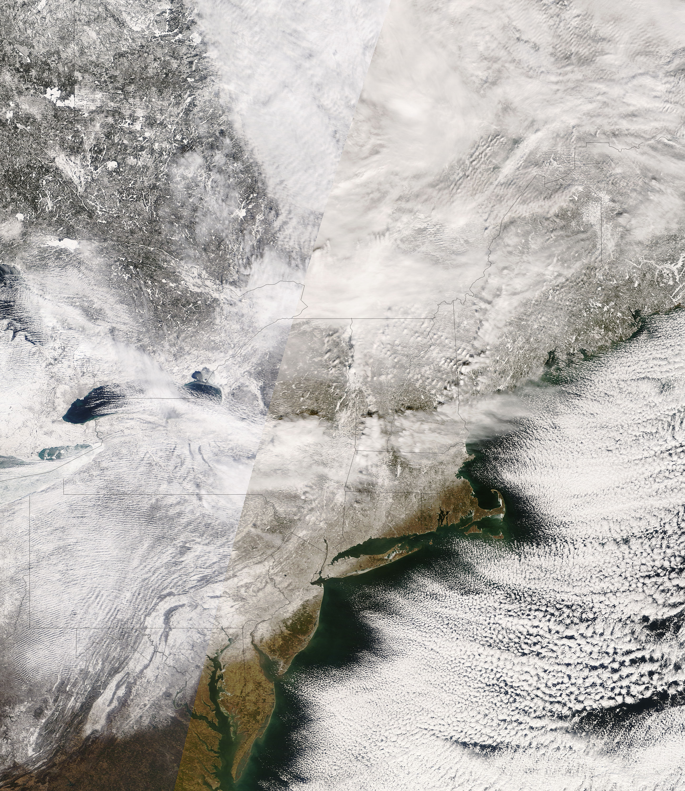 The New England states shown after receiving a lot of snowfall from the February 2007 North America winter storm.